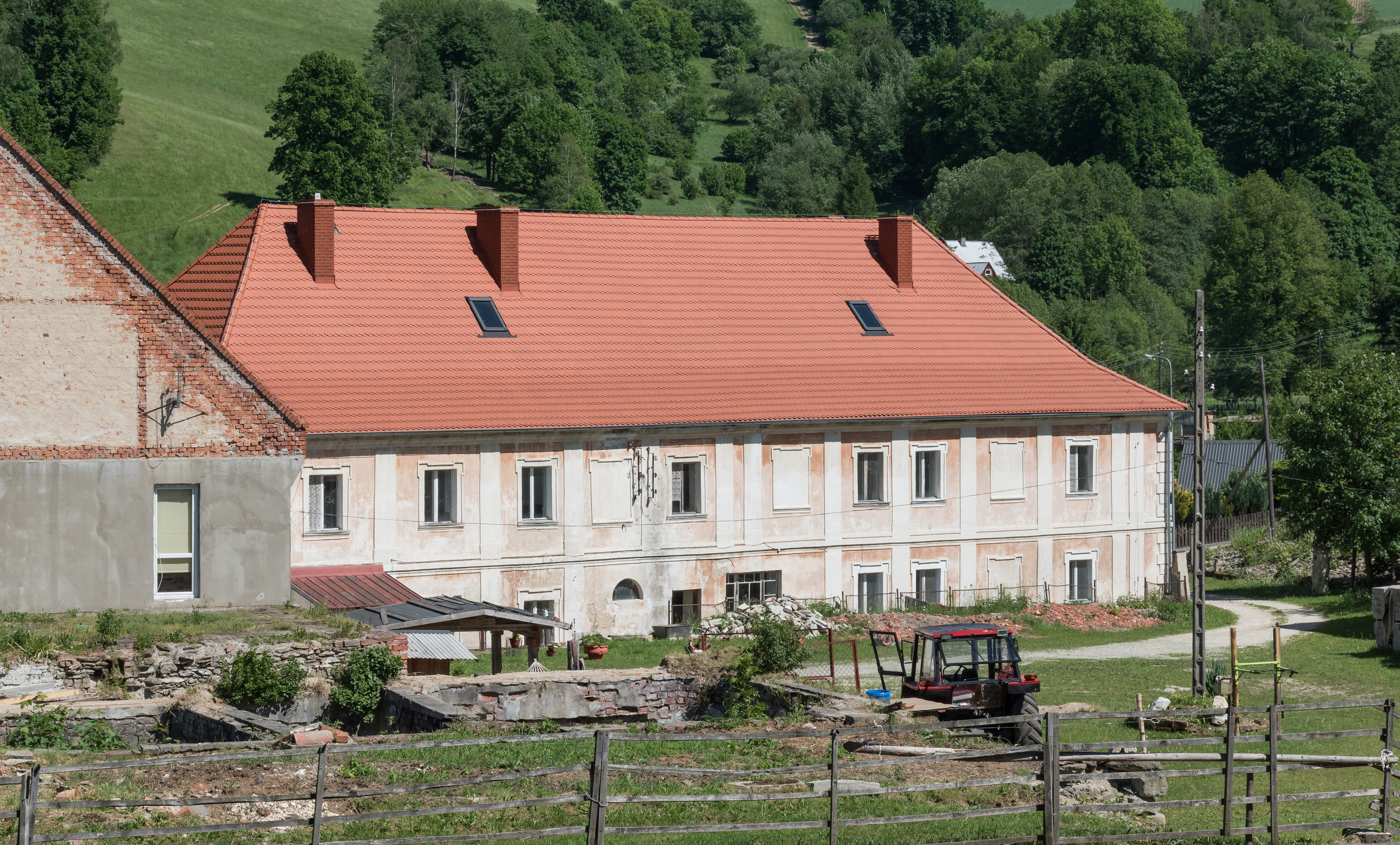 Manor in Konradów